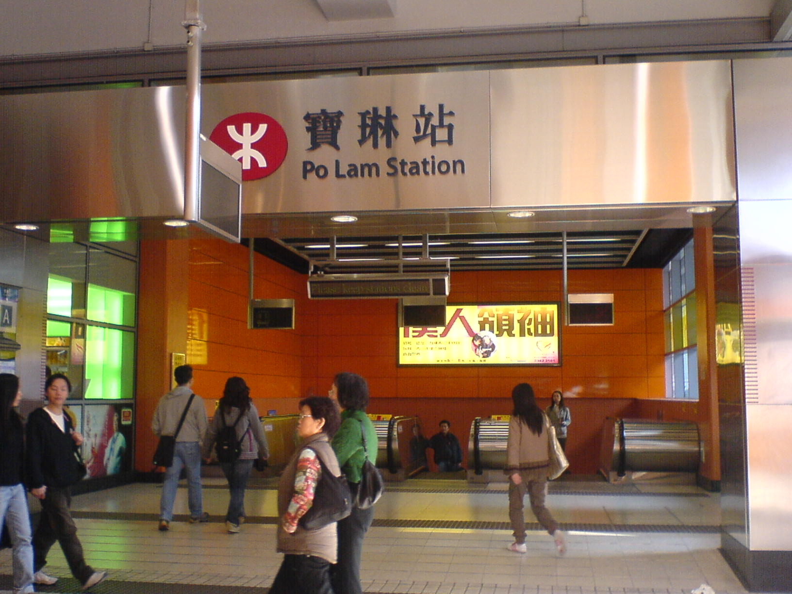 Po Lam MTR Station Exit A